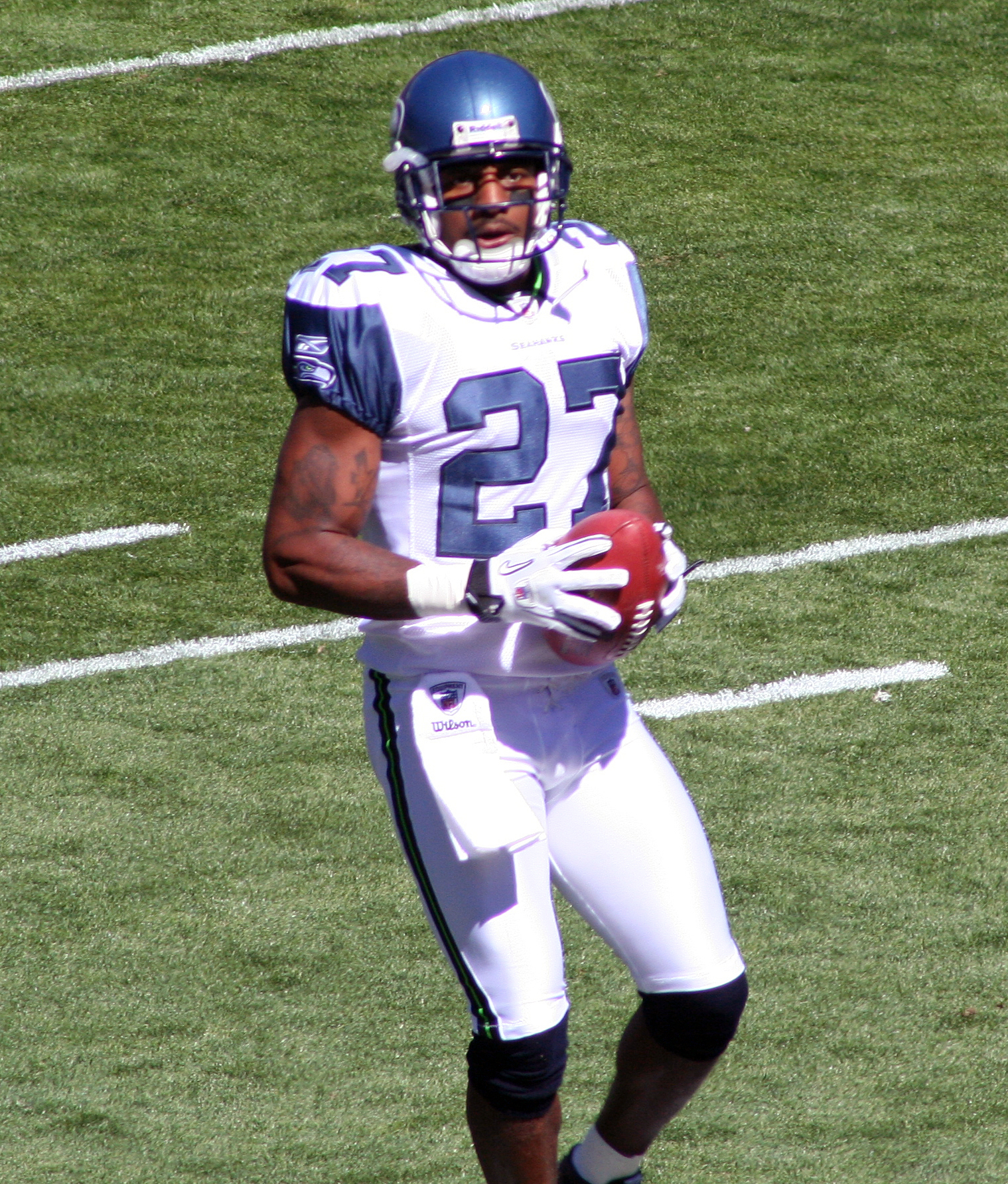 Jordan Babineaux, a player on the Seattle Seahawks American football team.